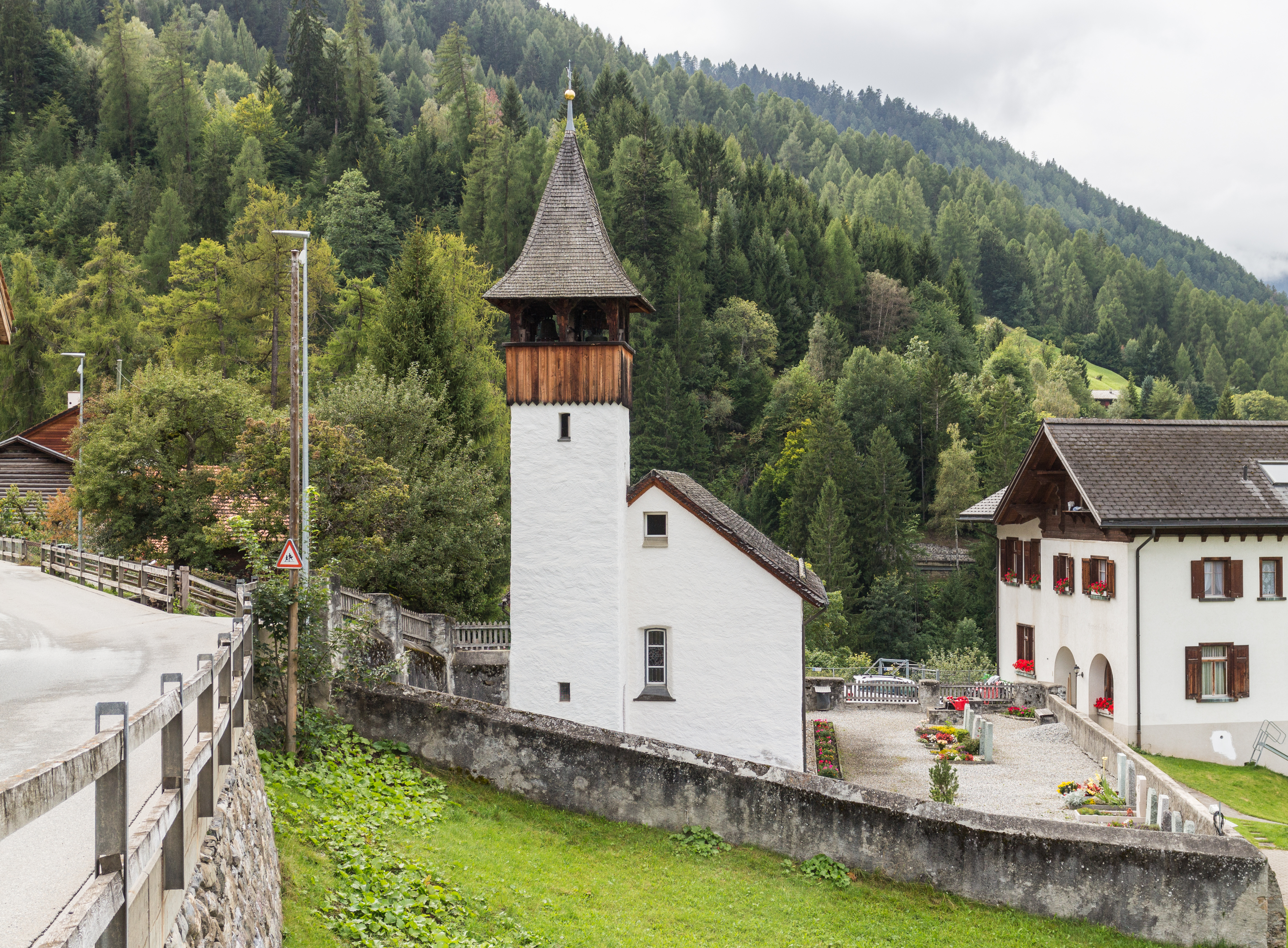 Church in Praden.